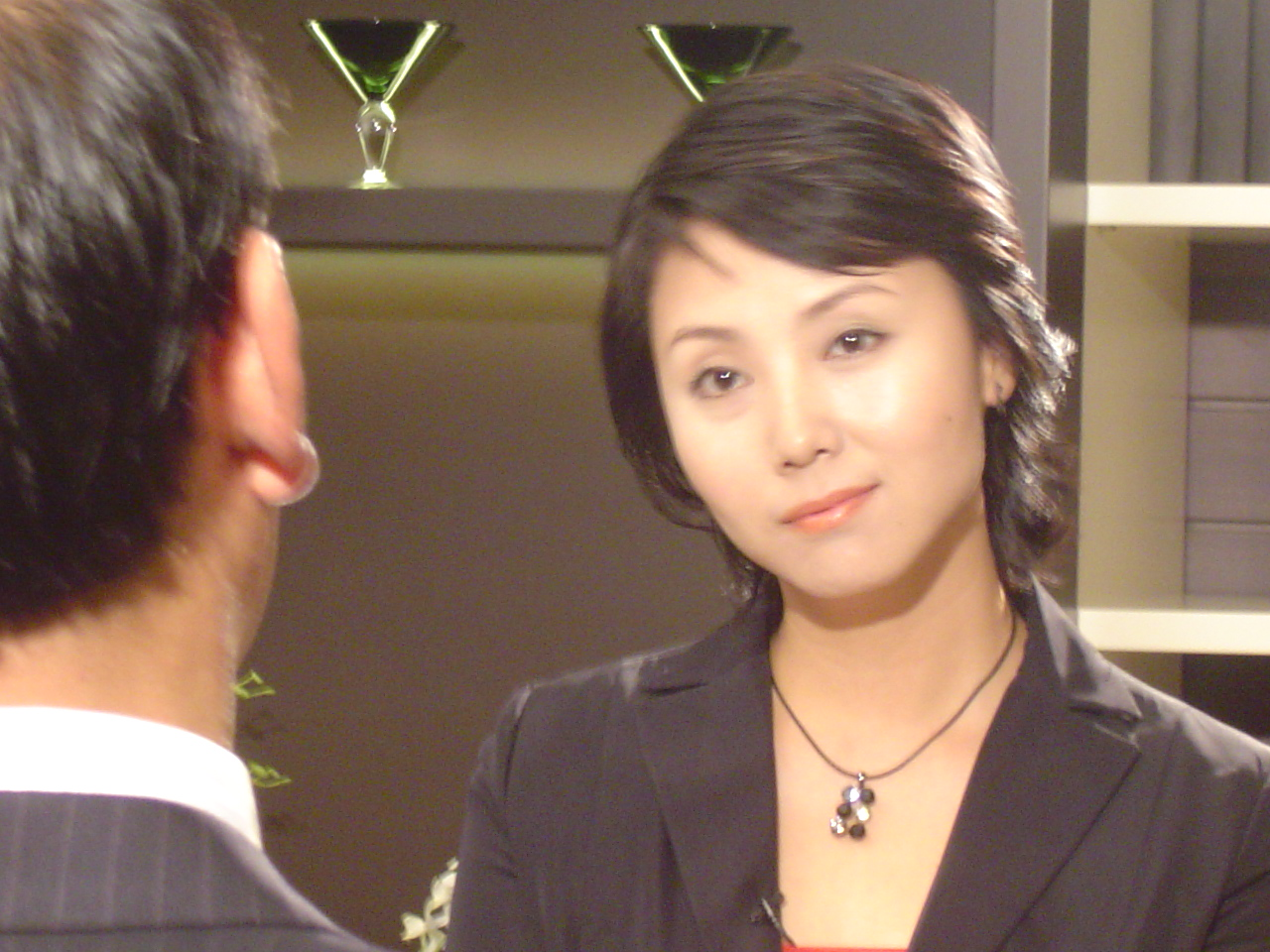 I took when she was interviewing